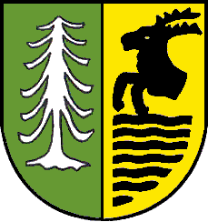 Coat of Arms of Oberhof